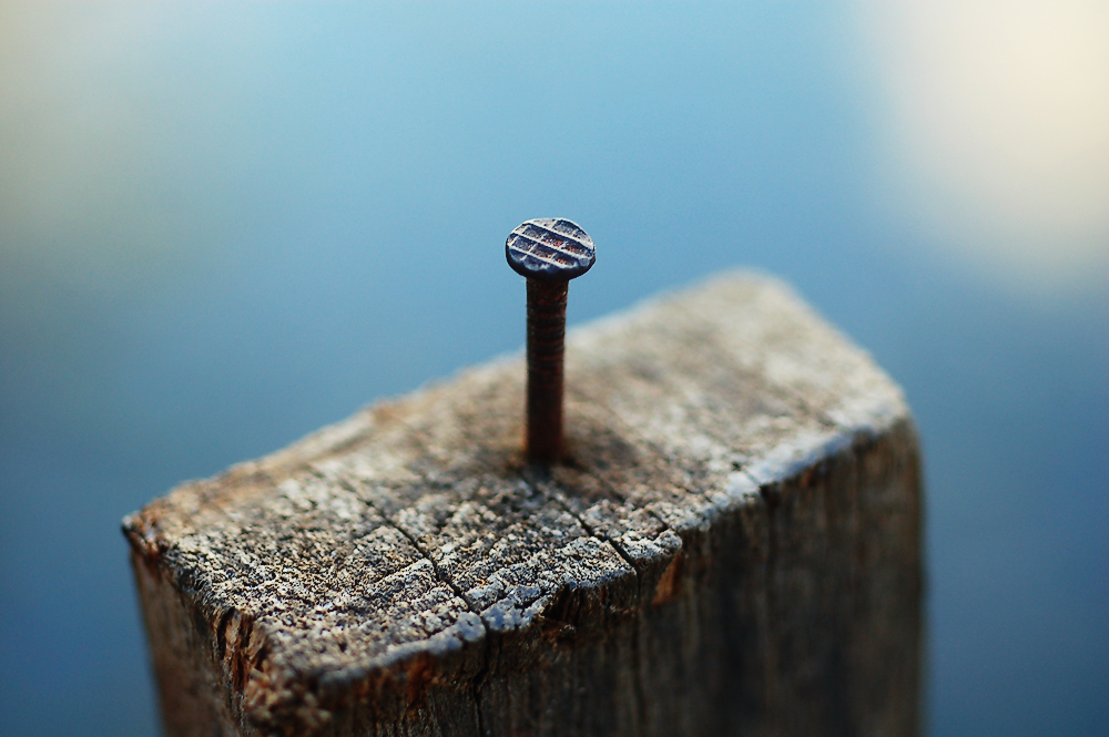 A nail sticking out from a block of wood.